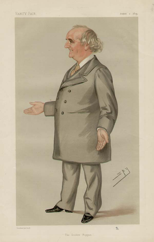 Statesmen No.310: Caricature of Mr WC Brooks MP. Caption reads: "The Golden Pippen"